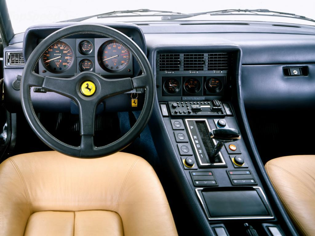 Ferrari 412 (1985–1989)